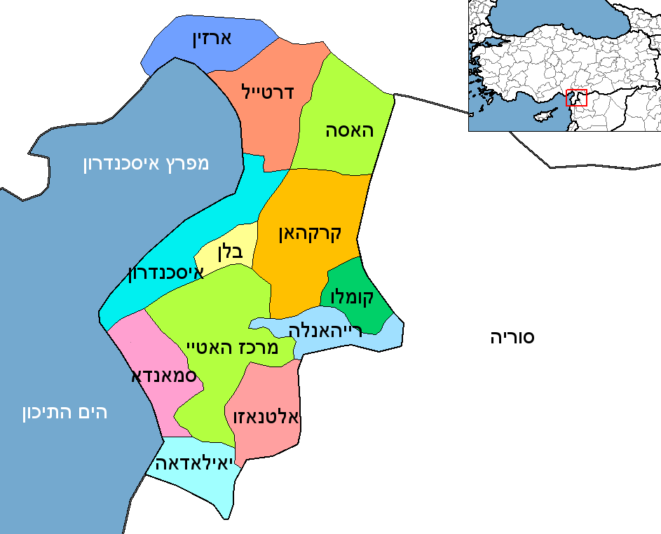 Map of the districts of Hatay province in Turkey